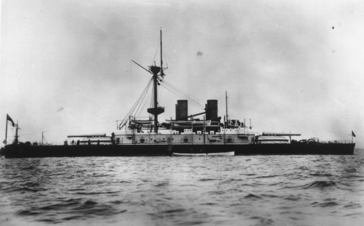 British battleship HMS Howe